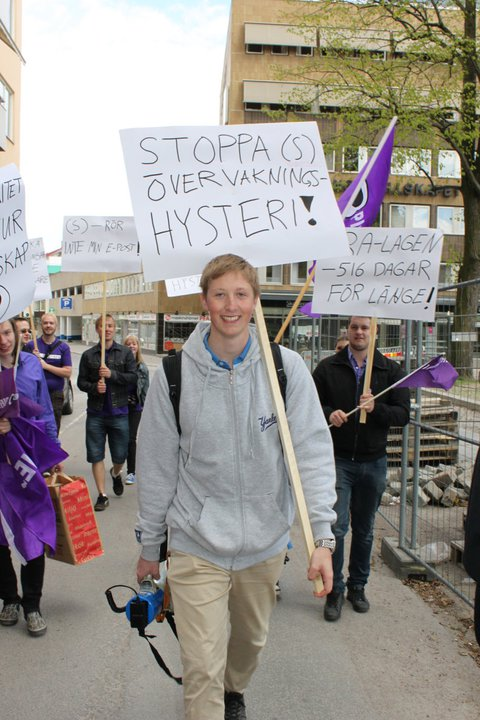 Gustav Nipe on a rally for Piratpartiet in Linköping, 1 May 2011.